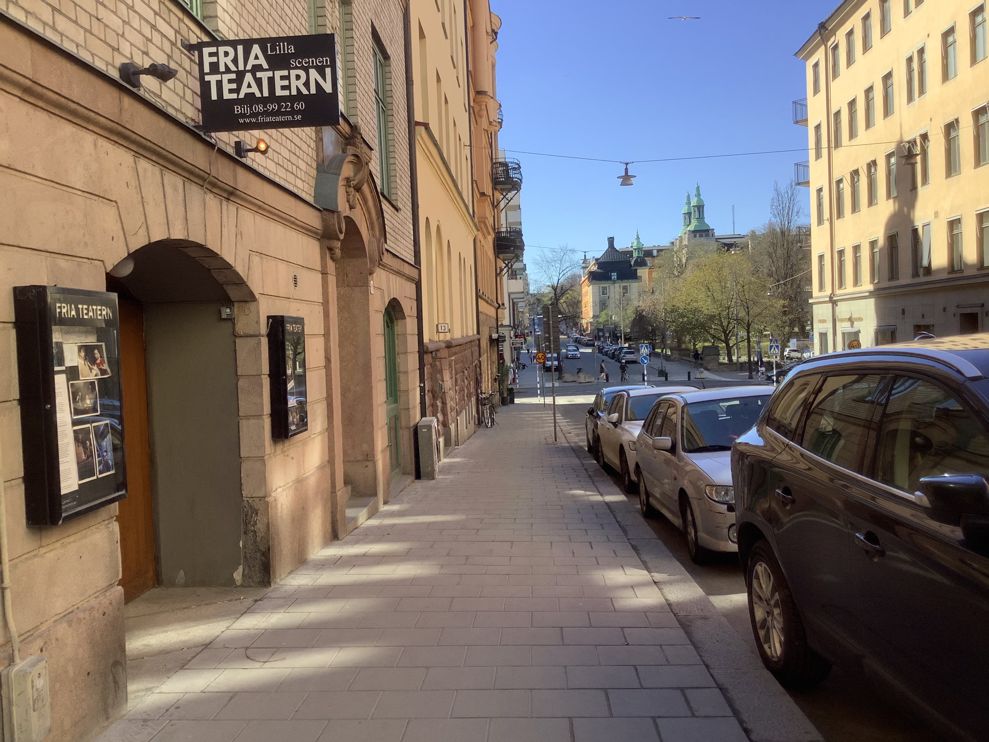 Fria Teatern, Bergsgatan, Kungsholmen